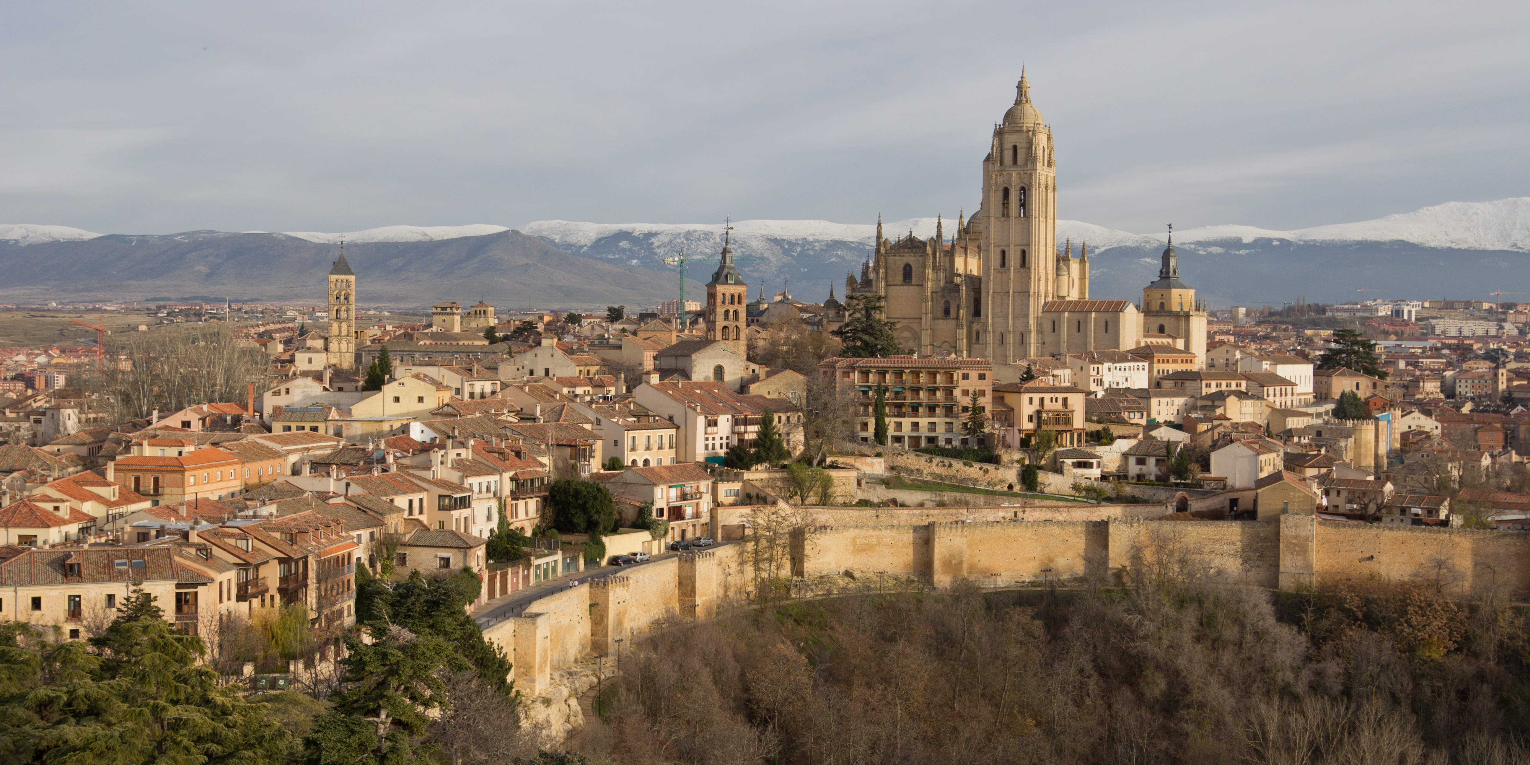 View of Segovia (Spain) from the alcázar.